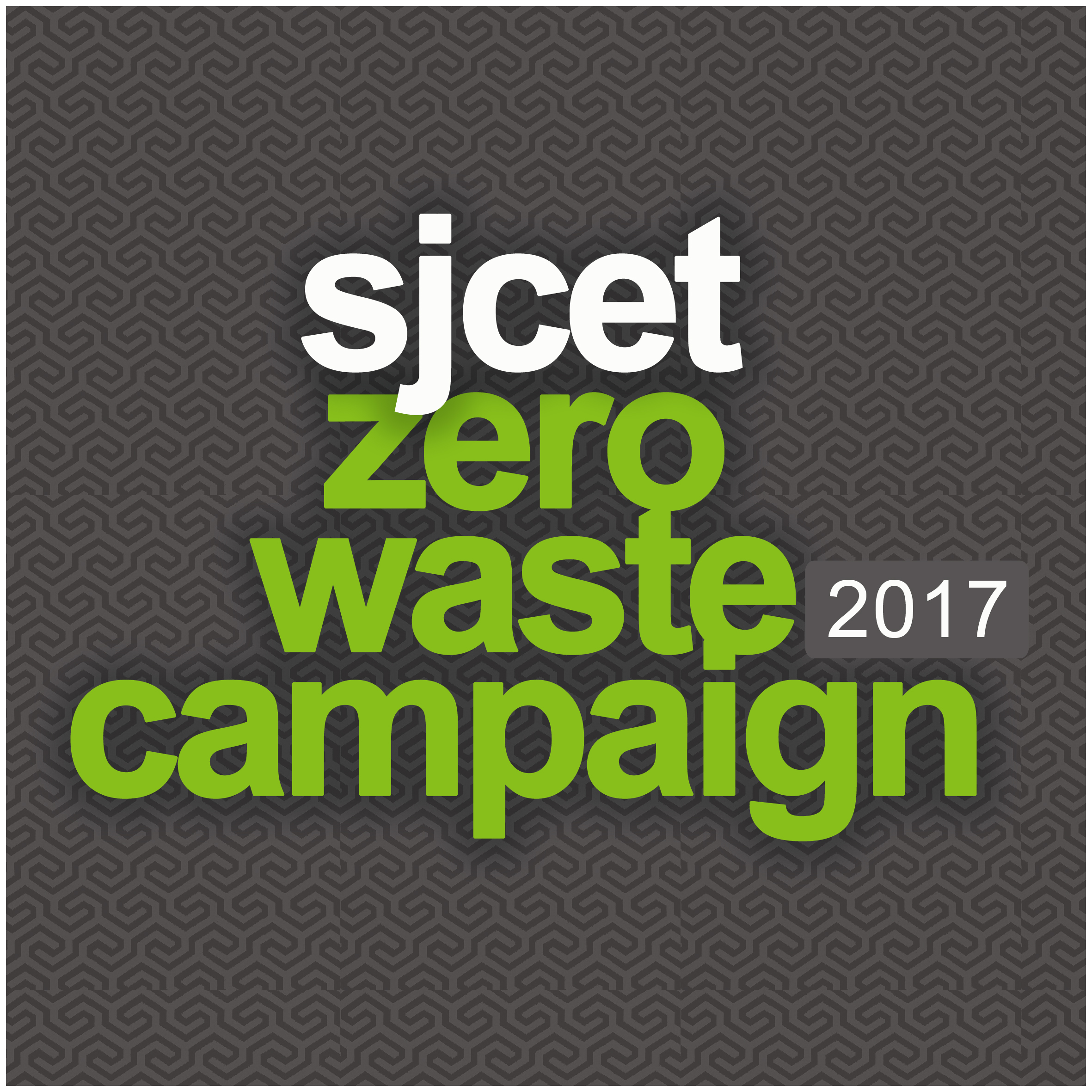 Zero Waste Campaign a Social Service Programme organized and volunteered by under graduate students for 15 days are split-ed up suitably for field work and preparation of report based on the data collected from the field. Impart the public that the redesign of resource life cycles so that all products are reused.